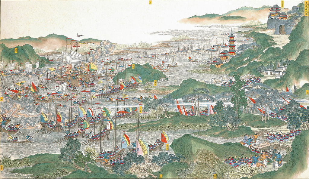 A scene of the Taiping Rebellion, 1850-1864